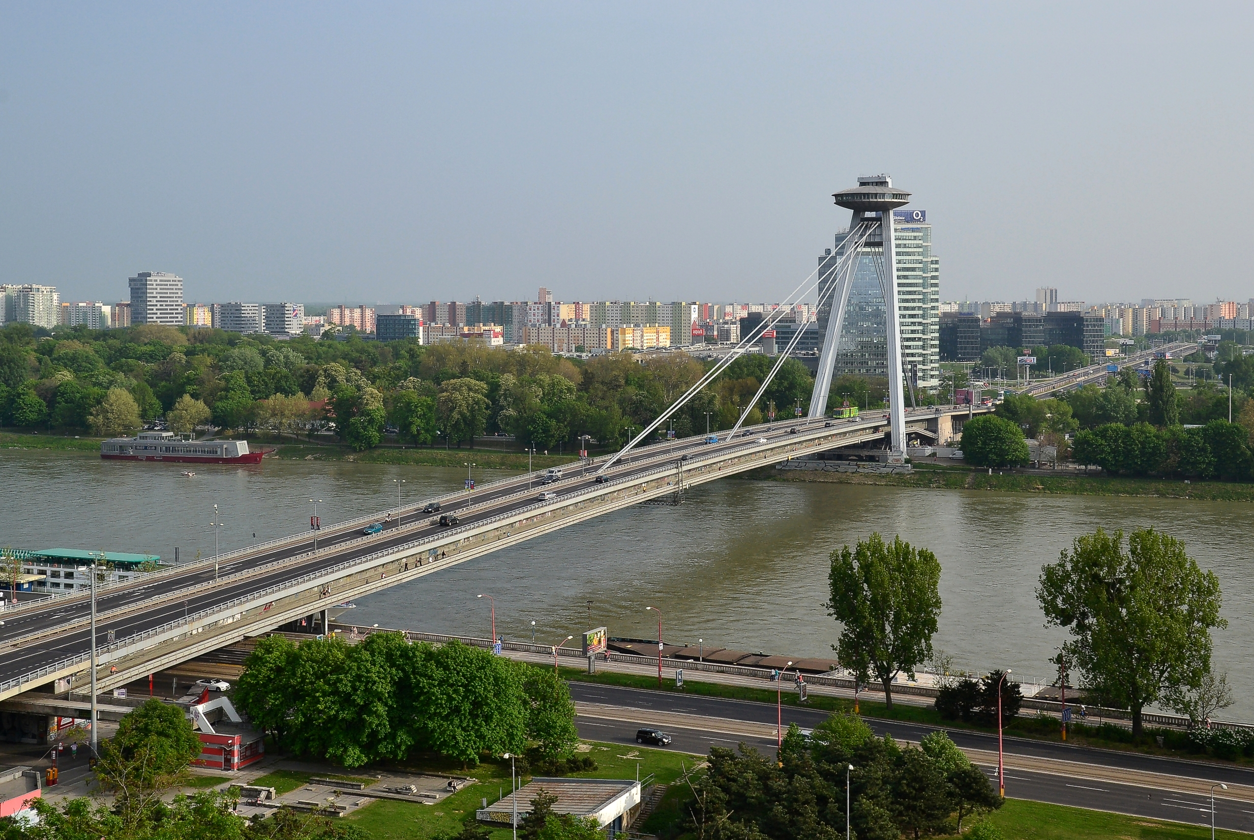 Most SNP (to 2012 New Bridge), Bratislava (Pressburg, Pozsony)